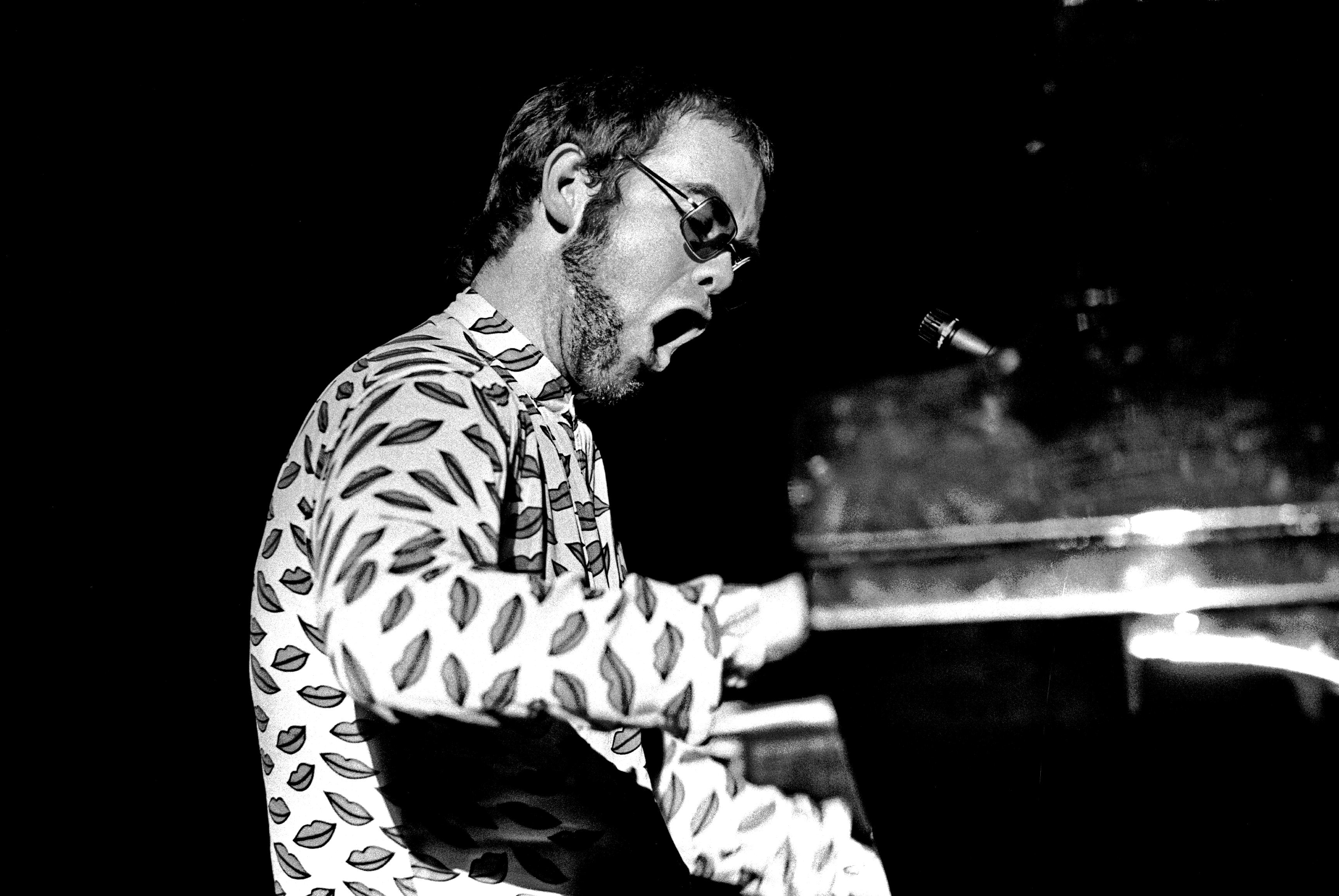 Elton John performing in Hamburg, Germany, March 1972.